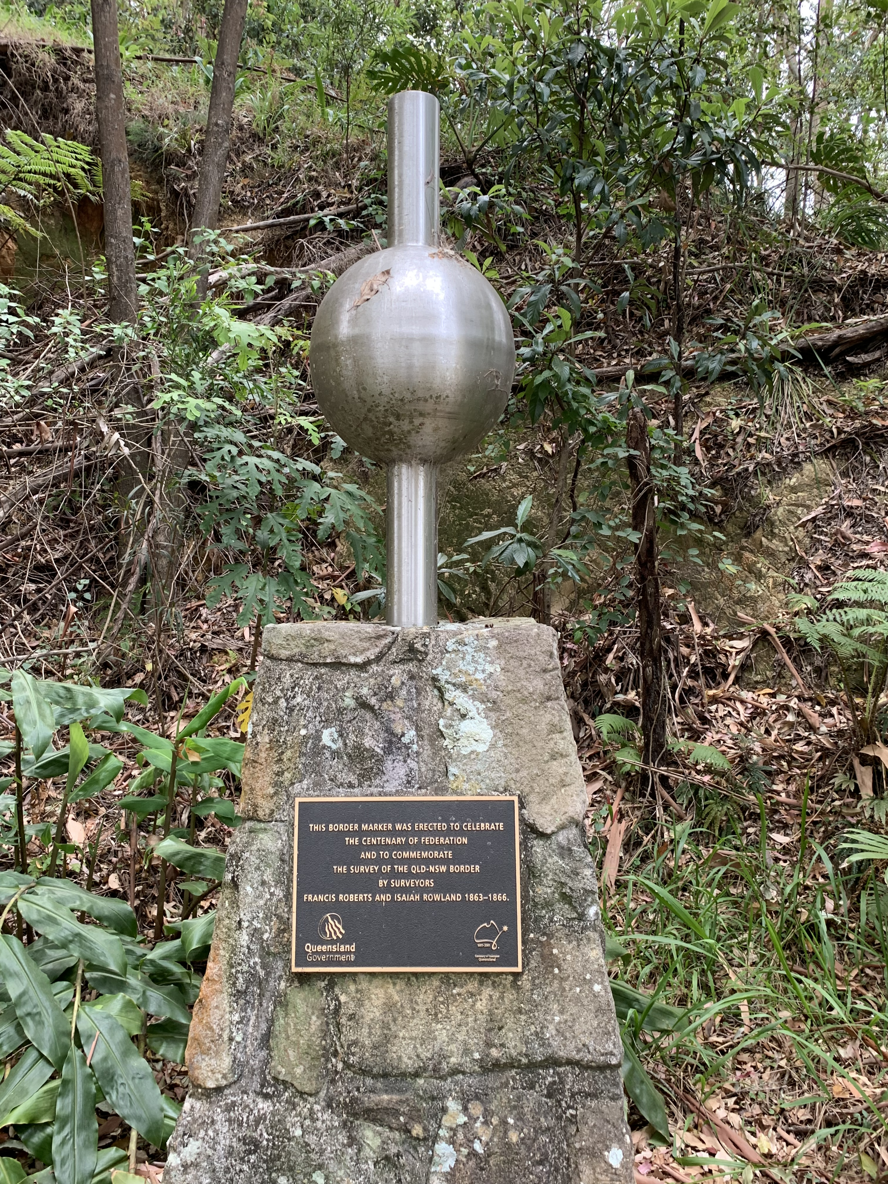 Monument on the Queensland- New South Wales border to commemorate the centenary of Australian Federation and the surveying of the border by Francis Robers and Isaiah Rowland 1863-1866